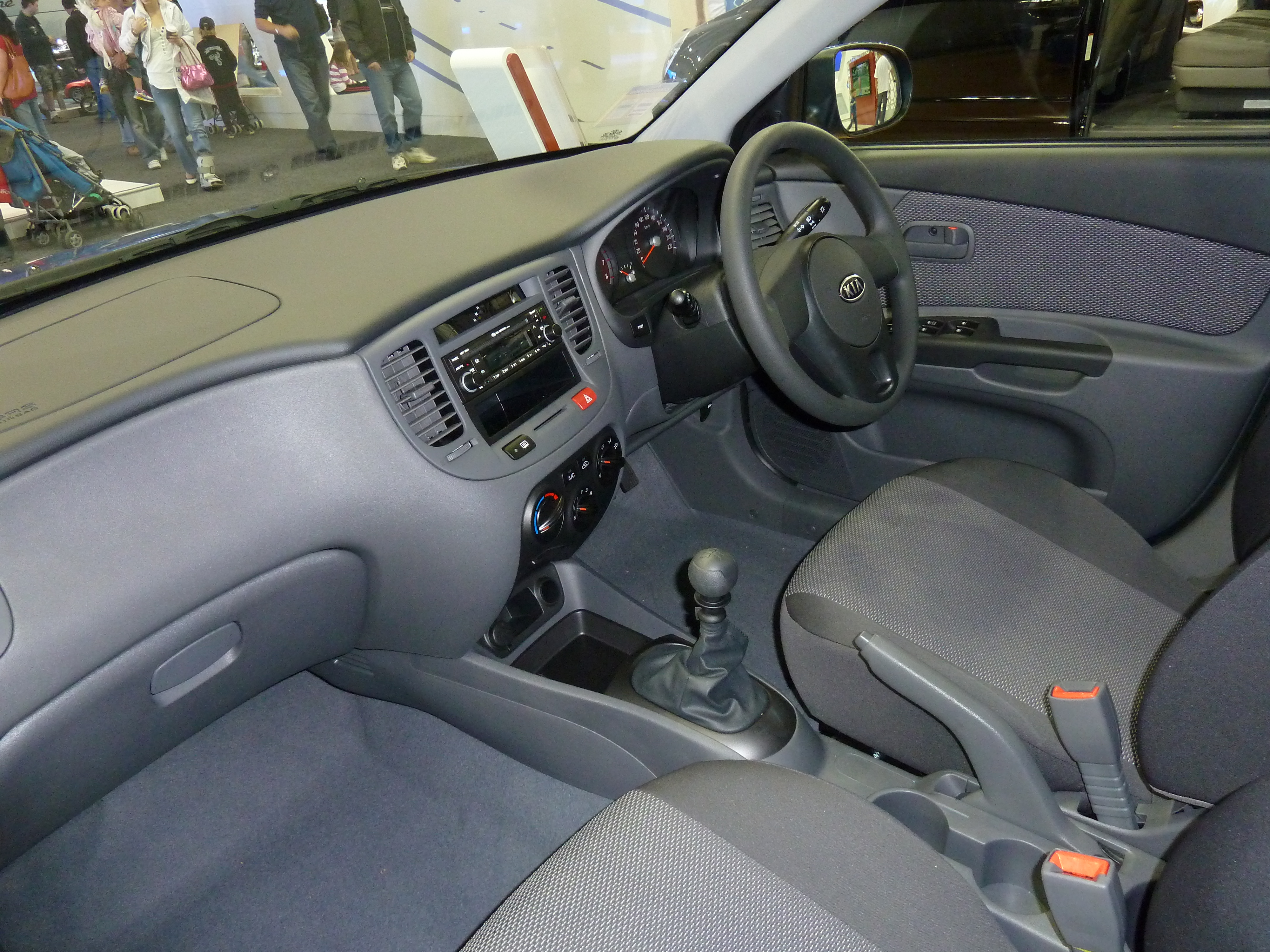 2010 Kia Rio (JB) Sports SE hatchback. Photographed at the 2010 Australian International Motor Show, Sydney, New South Wales, Australia.